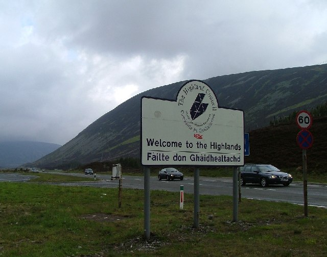 Border The Highland Region and Perth and Kinross.